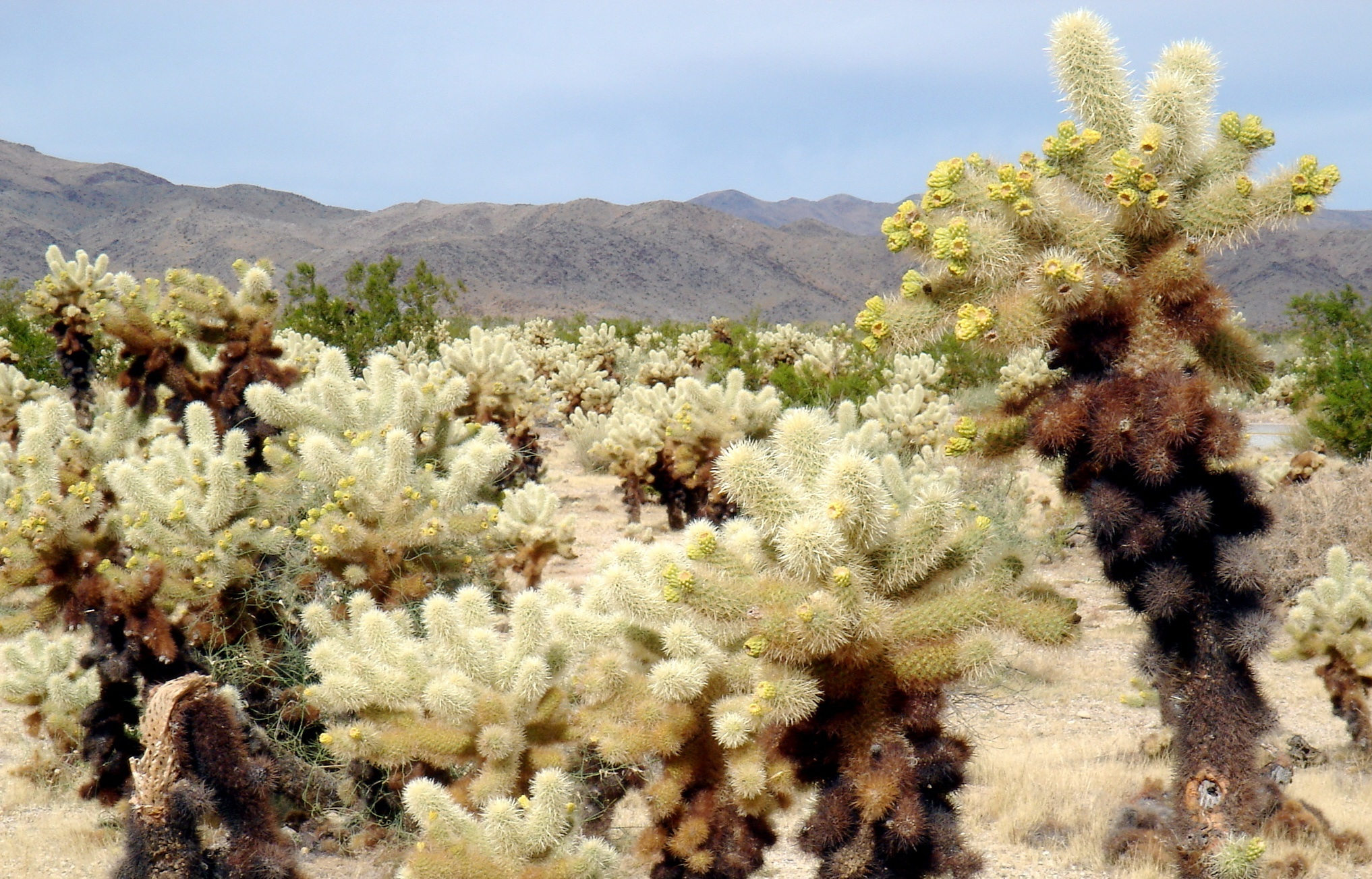 Cholla Cactus Garden in Joshua Tree National Park in Southern California.